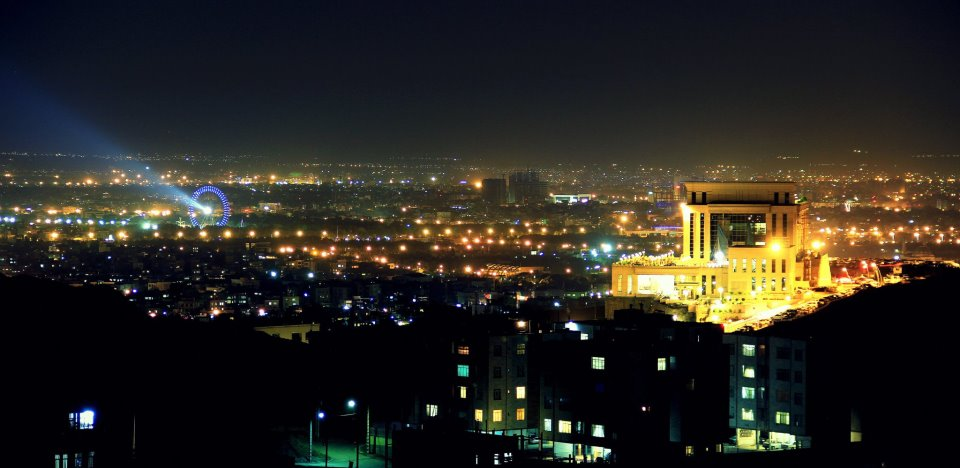 Mashhad City at night